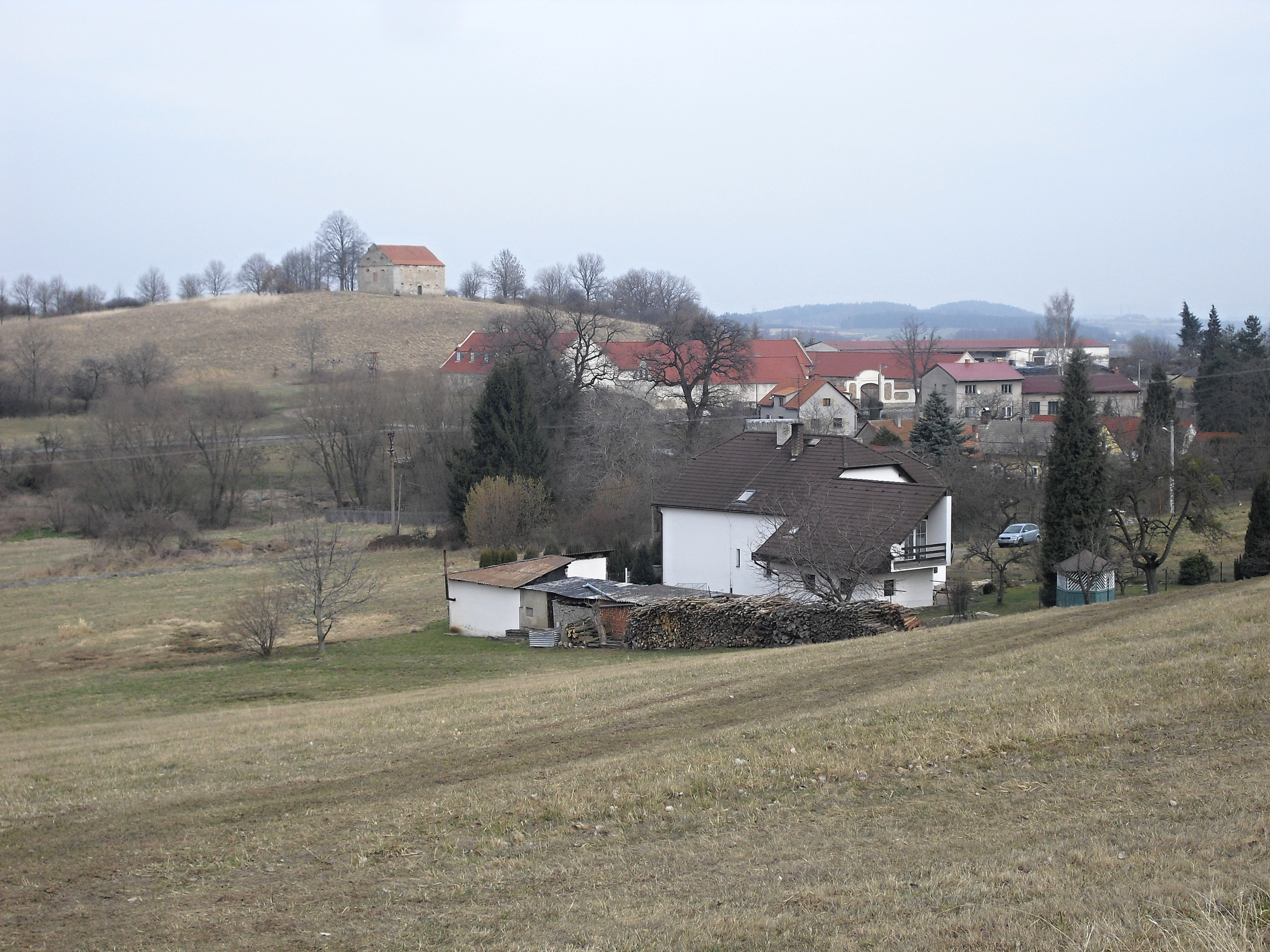 Olbramovice, Benešov District, Czech Republic, part Křešice.